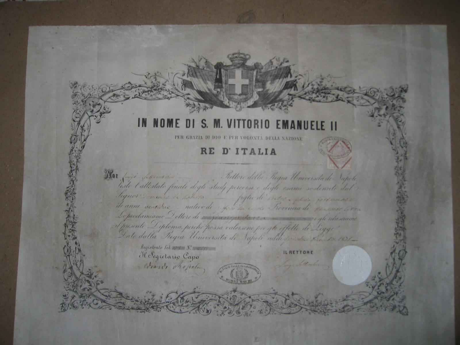 Pergamena di laurea di Domenico de Roberto